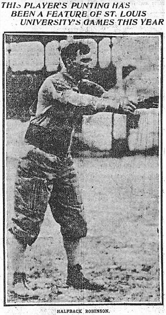 Brad Robinson (who threw football's first legal forward pass) punting